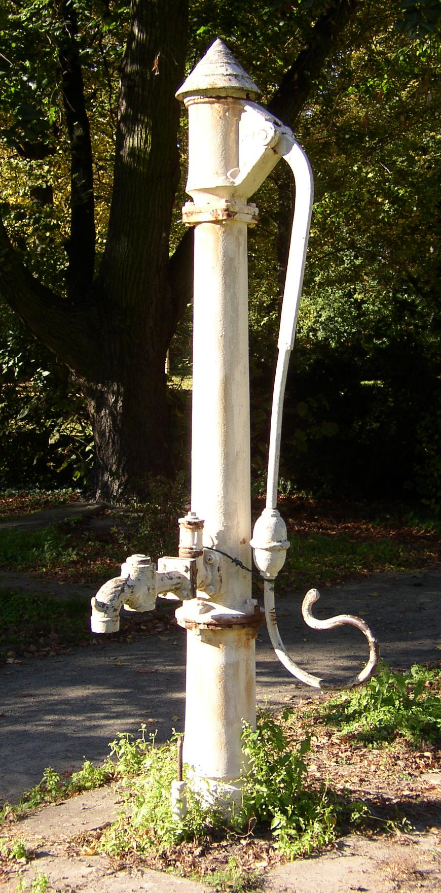 Manual Pump in Berlin-Pankow, Germany